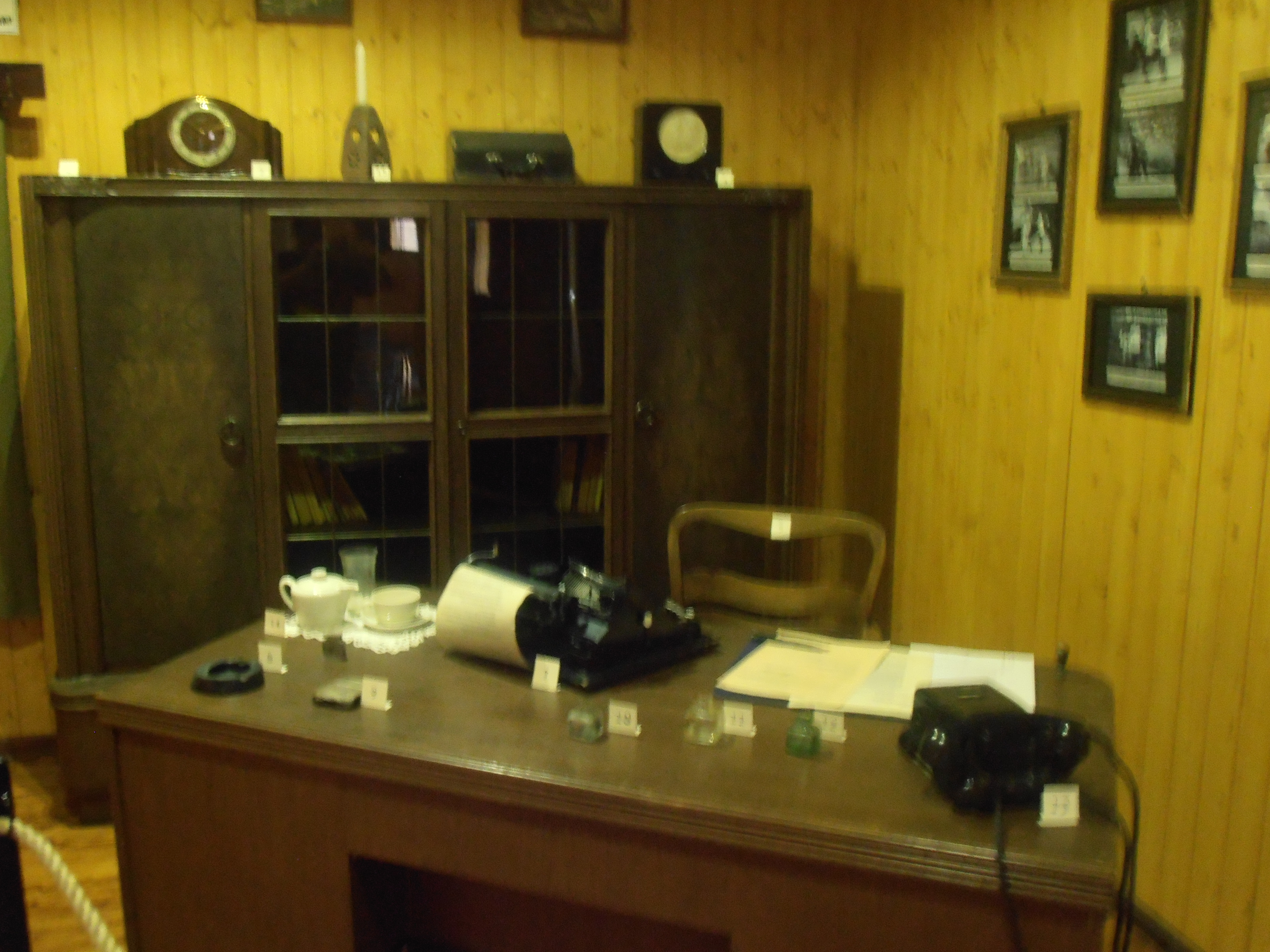 A reconstruction of the SS-Truppenübungsplatz Heidelager camp commandant SS Oberführer Bernhardt Voss' private office. SS-Truppenübungsplatz Heidelager museum in Pustków, Poland